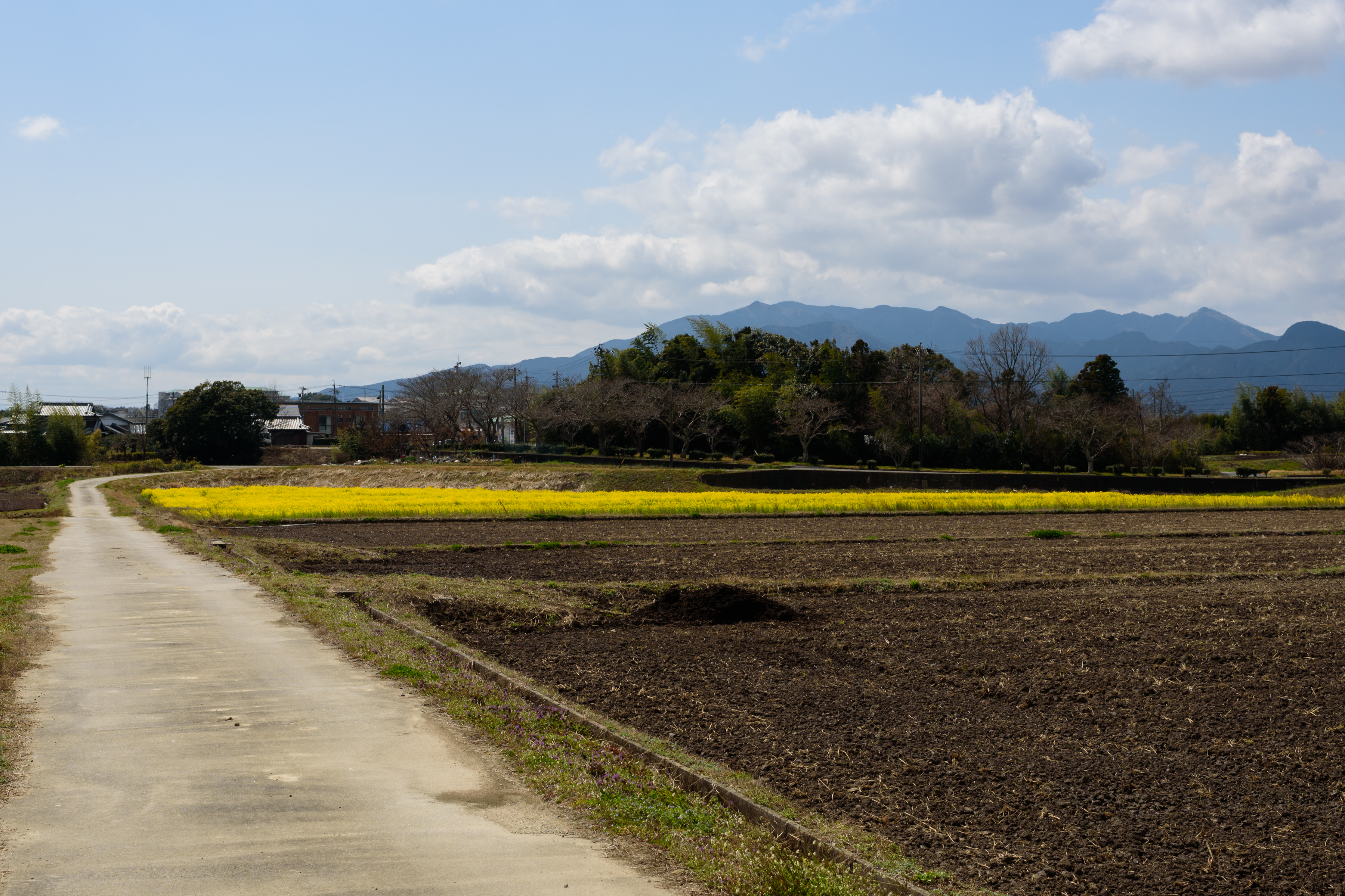 View of Mt. Kyogamine, from Takanoo, Tsu